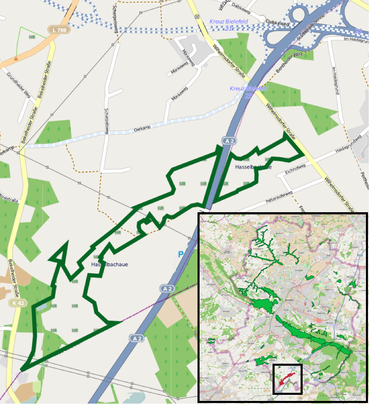 Bielefeld - Nature reserve Hasselbachaue - overview mapNumber and borders of nature reserves are subject to frequent change. In order to facilitate reproduction of this map from openstreetmap, the following data is stored here: export boundaries: north: 51.945; west: 8.51; east: 8.55; south: 51.918; mapnik svg, scale 1:22.000 nature reserve boundary stroke weight 10.0; nature reserve stroke color: R 5, G 102, B 36; municipality border stroke weight: as found